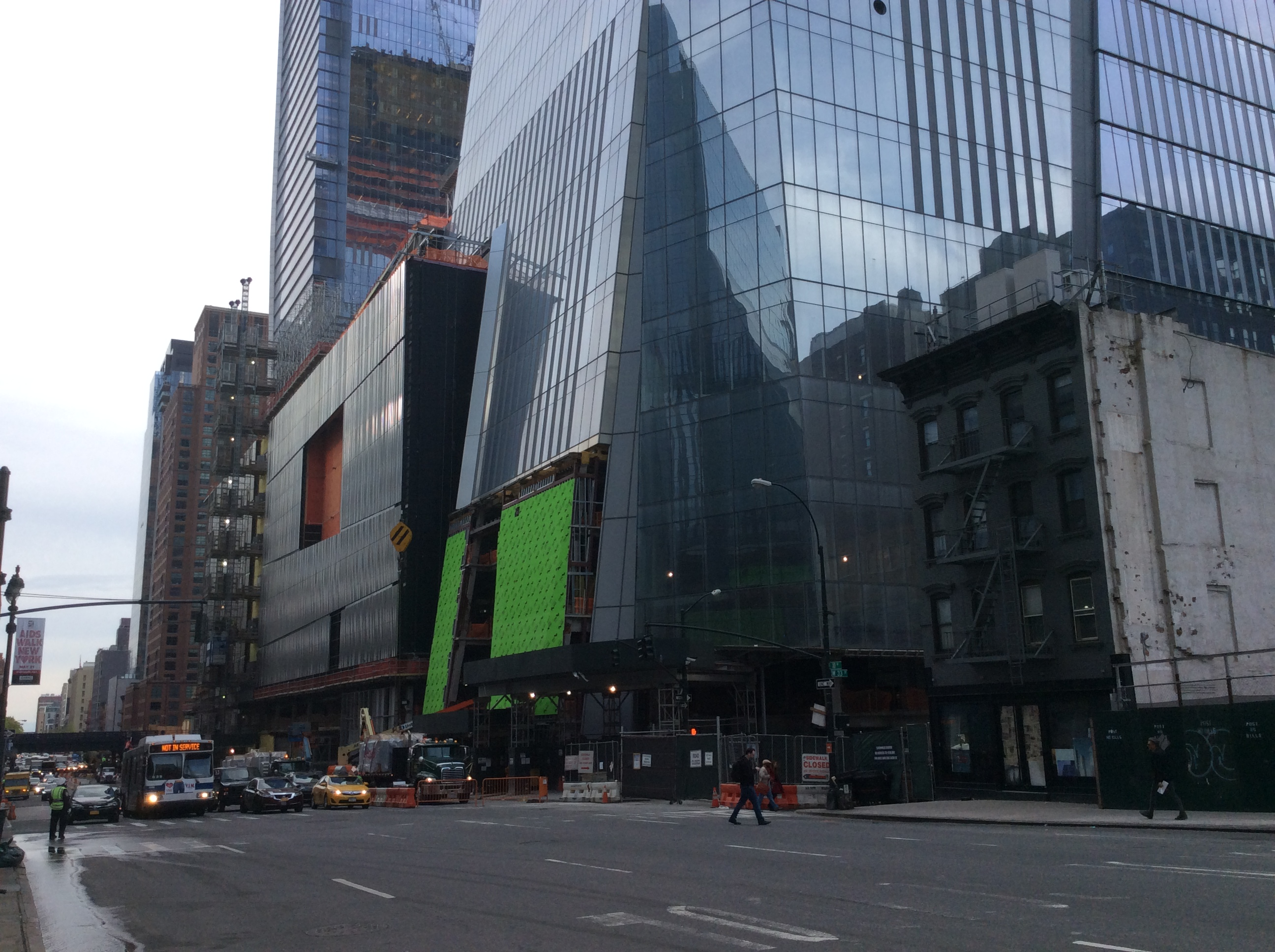 The Hudson Yards area of Manhattan in May 2017